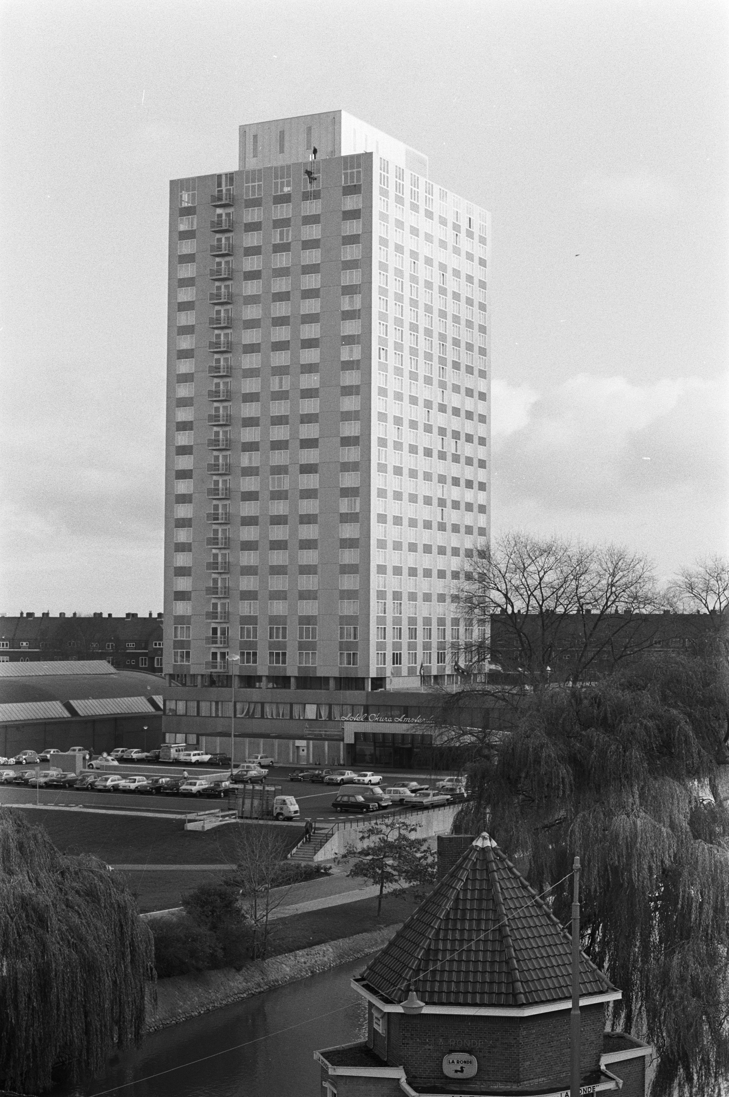 Okura Hotel Amsterdam 1971